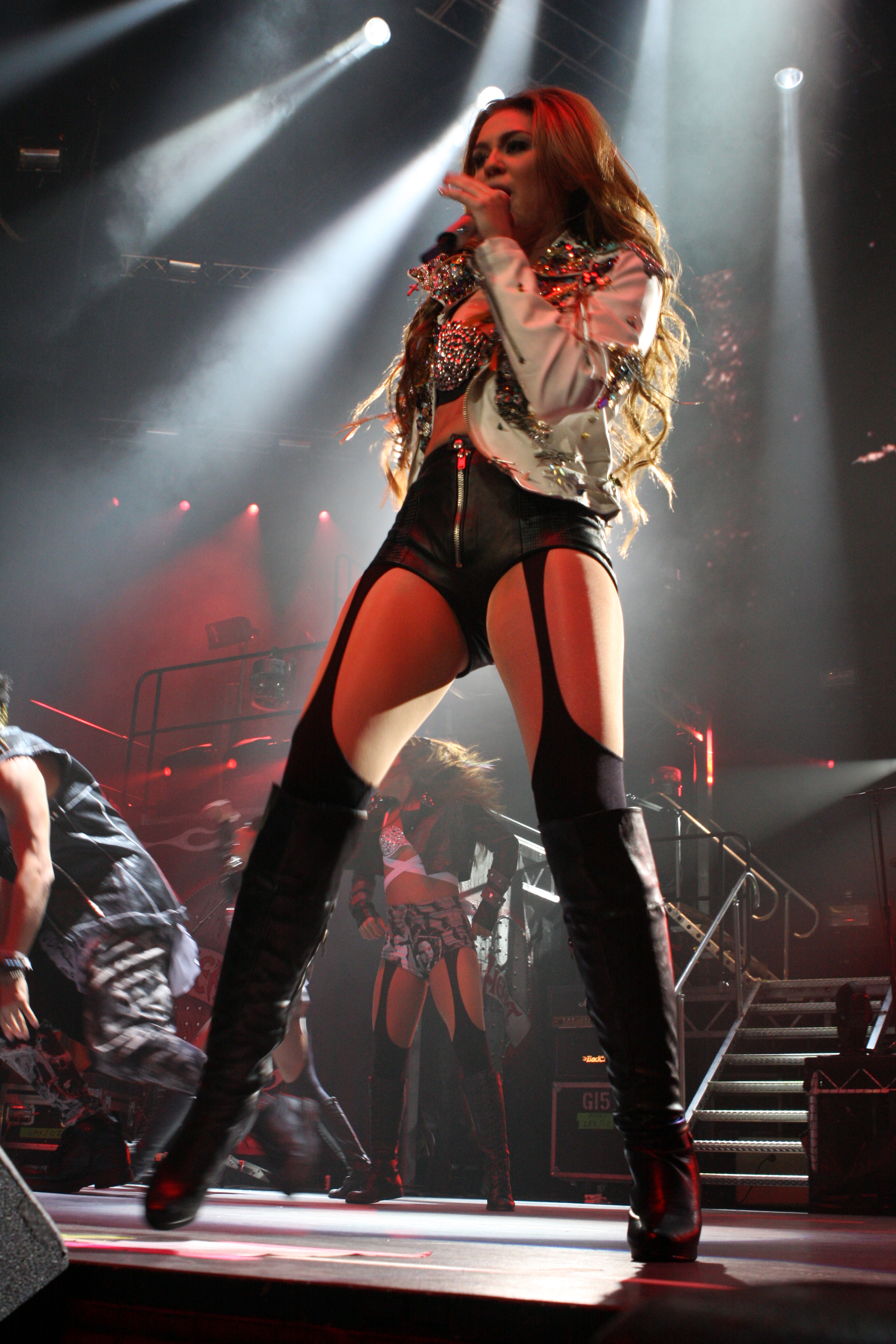 Pop singer Miley Cyrus performing in Sydney, Australia as part of her Gypsy Heart Tour.